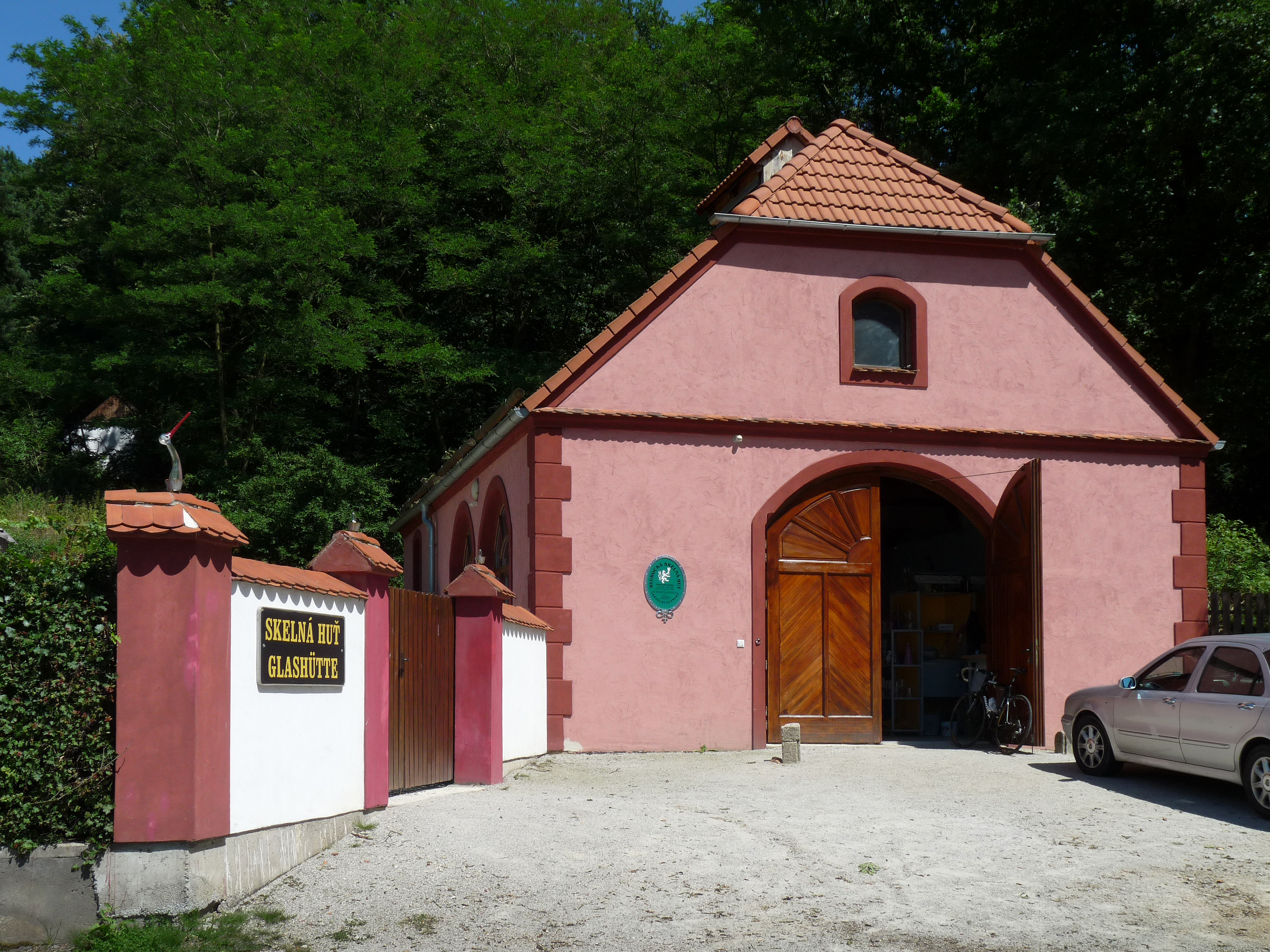 Glass house near the village of Opatovice, part of Hrdějovice, České Budějovice District, Czech Republic.